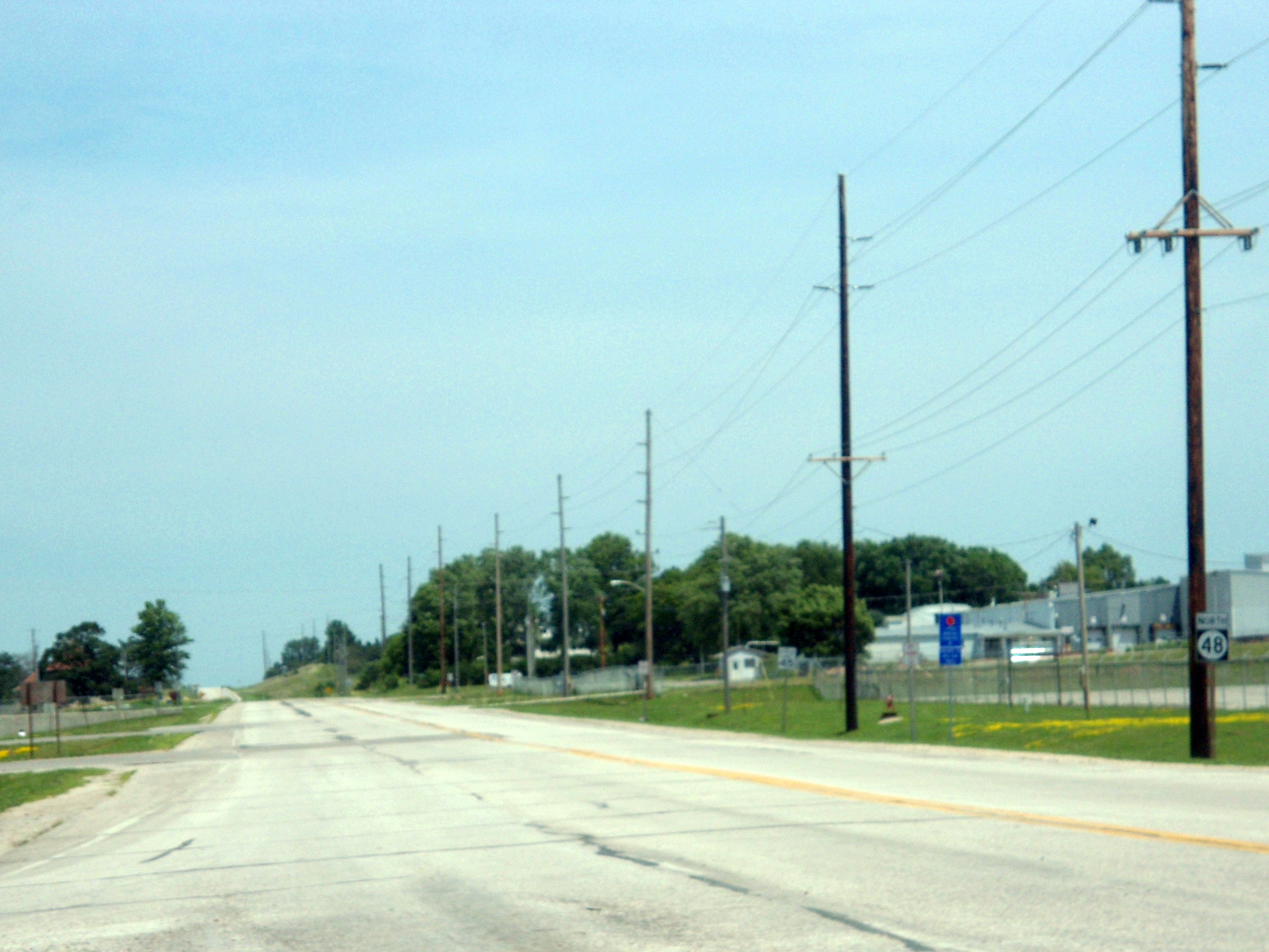 IA 48 (Broadway St) northbound at a junction with US 34 in Red Oak, Iowa.